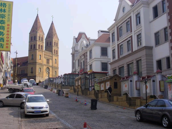 St. Michael's Cathedral, Qingdao, China.